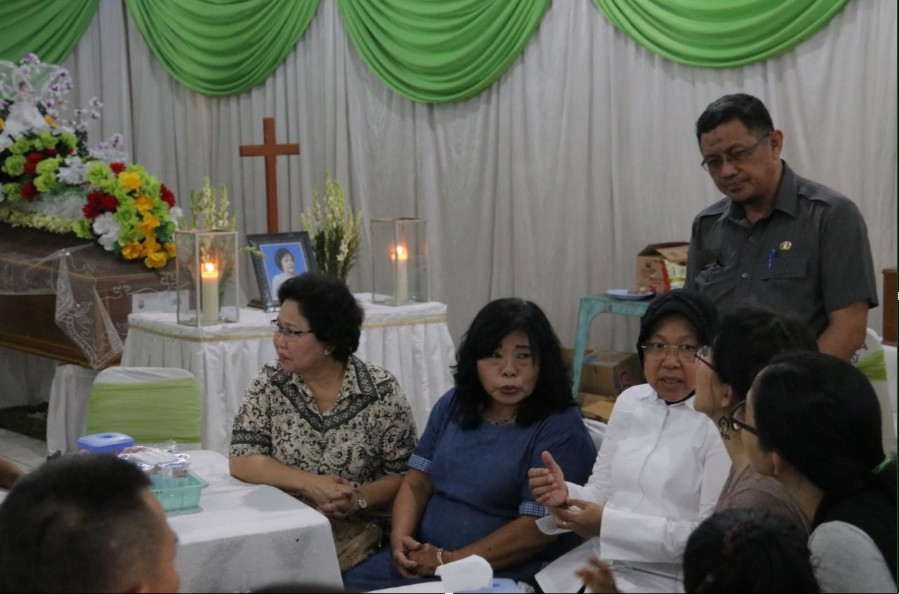 Mayor of Surabaya Tri Rismaharini visited the relatives of the victims of the 2018 Surabaya bombings